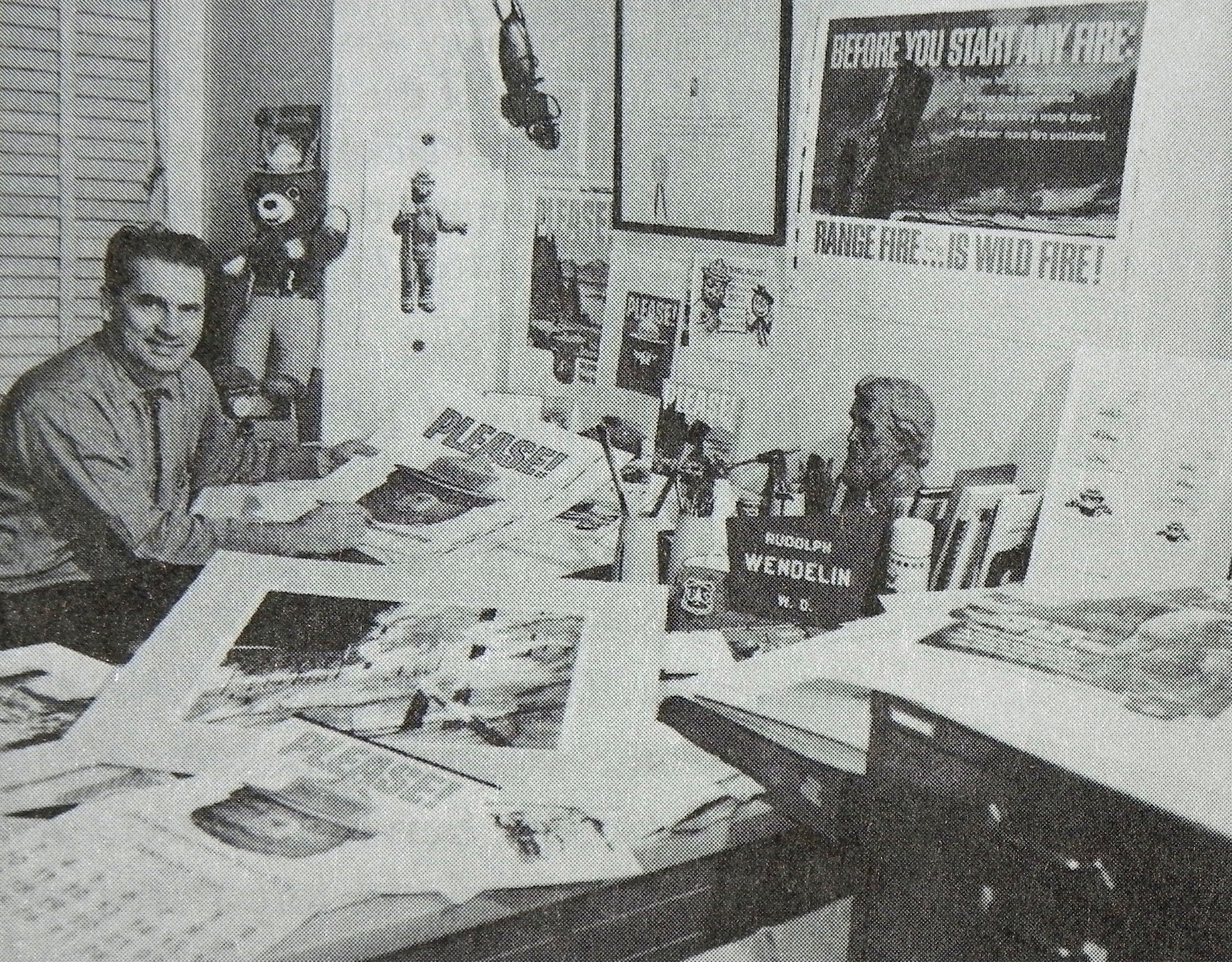 Rudy Wendelin, artist of Smokey Bear, in Washington, D.C. c. 1960